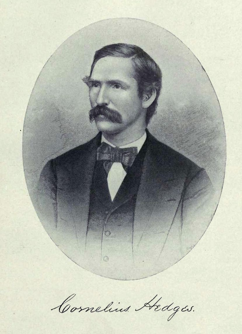 Portrait of Judge Cornelius Hedges, Helena Montana, circa 1870